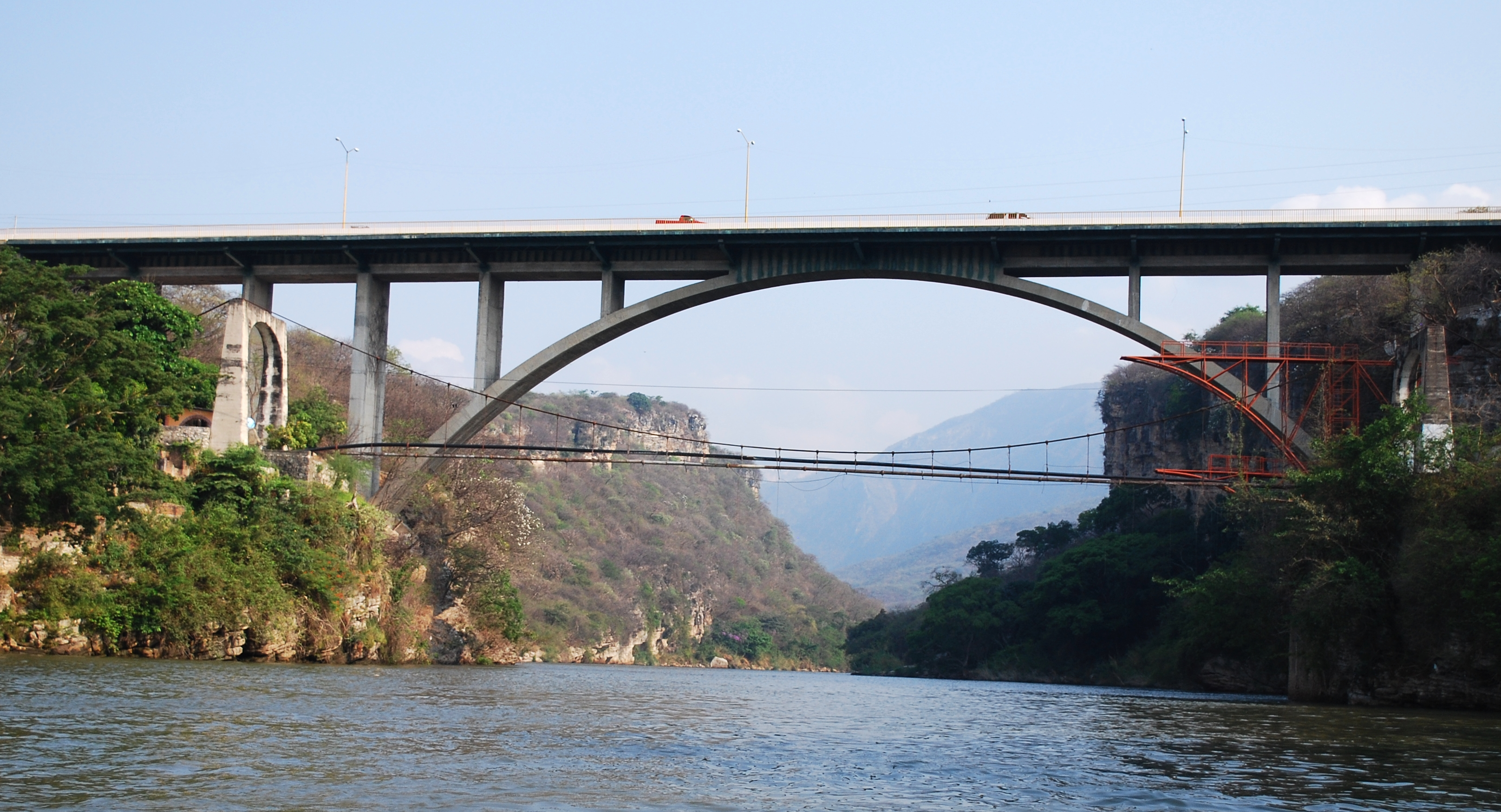 Bridge over the Grijalva River in Tuxtla Gutierrez, Chiapas, Mexico